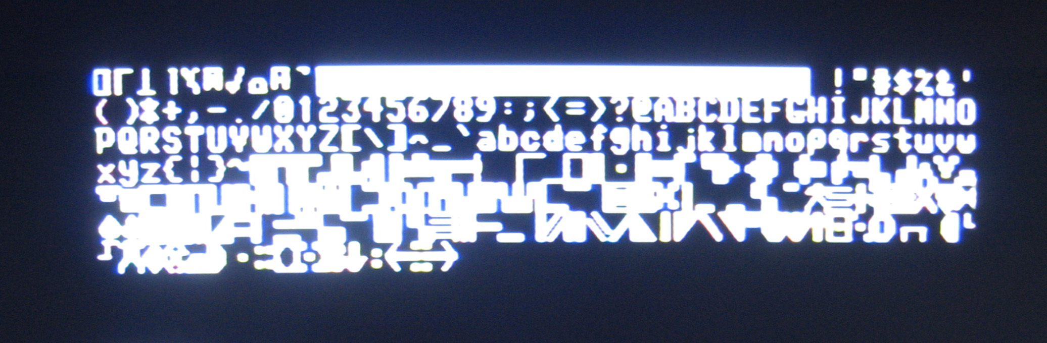 New Zealand Colour Genie Character Set